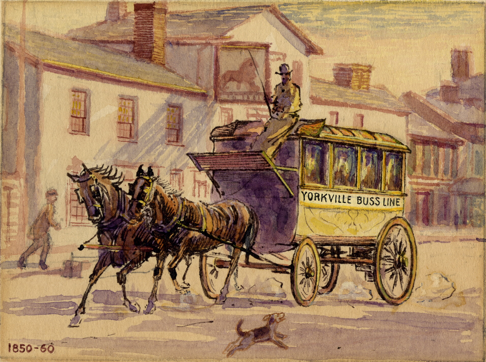 The Williams Omnibus (in use 1850-1862) was the first mass-transportation system in Toronto. Here, it's shown in front the northern terminus of the line — the Red Lion Hotel, which stood on the east side of Yonge St., just north of Bloor St. The southern terminus was the St. Lawrence Market. Creator: Staples, Owen (1866-1949), attributed to Date: 1914 Identifier: JRR 3510 Format: Picture Rights: Public domain Courtesy: Toronto Public Library. More information: (view details and larger image)